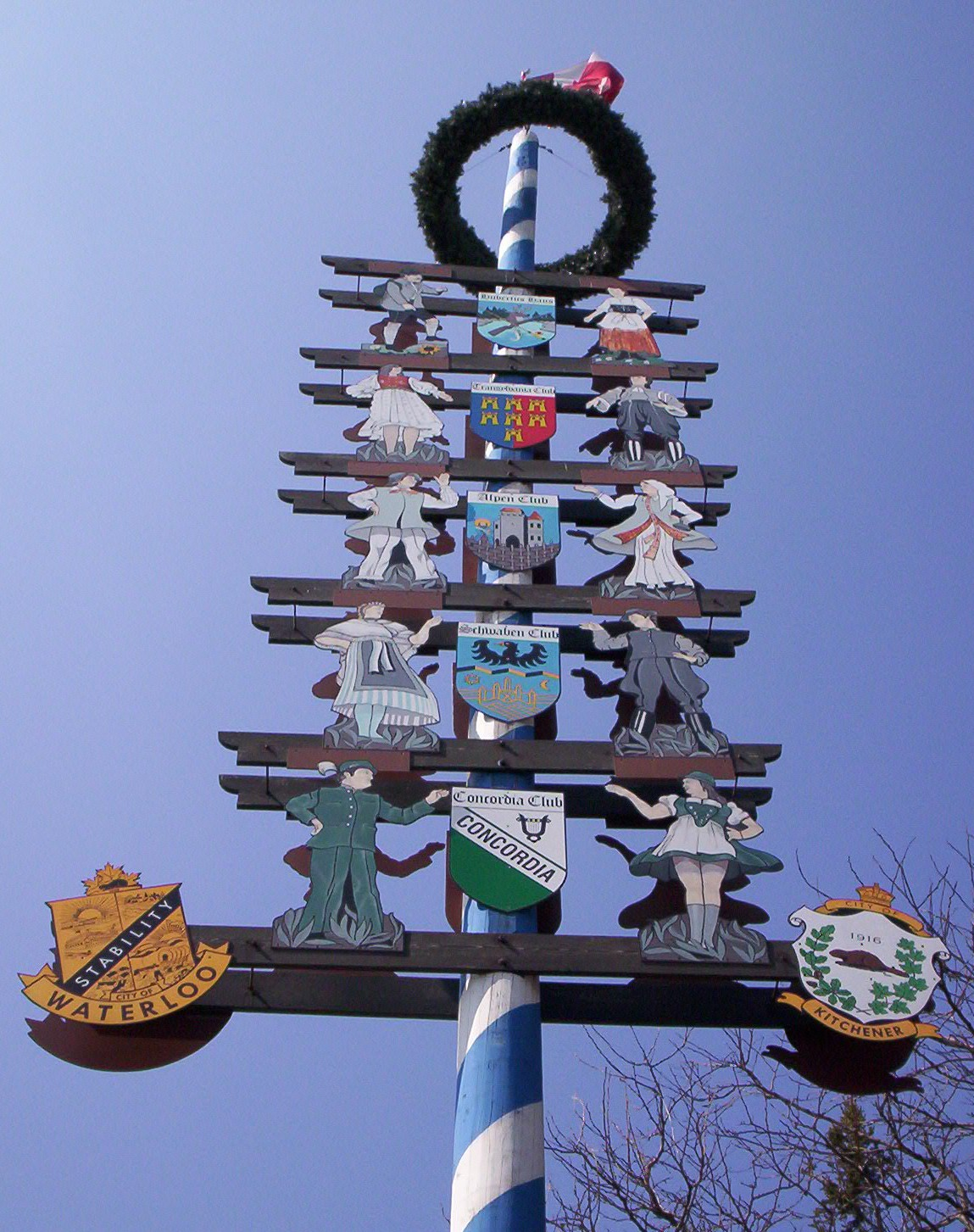 Maypole depicting the crests of the cities of Kitchener and Waterloo, and of the German service clubs tied to Kitchener-Waterloo Oktoberfest. Located at Benton Street and Hall's Lane, Kitchener, Ontario.